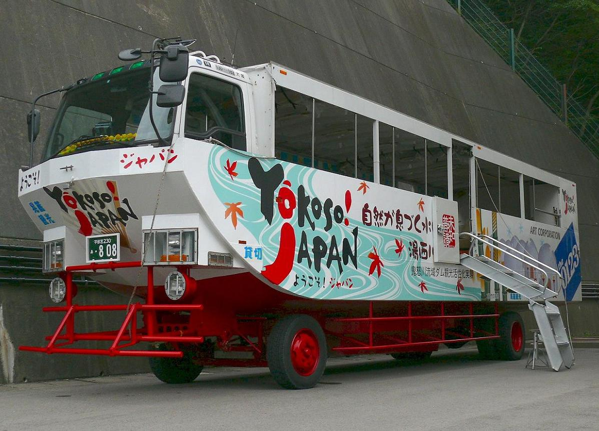 The first amphibious vehicle bus in Japan(U.S.-made). It takes a picture at the Tochigi Prefecture Nikko city Kawaji dam. The Ministry of Land, Infrastructure and Transport does, and it ..amphibian bus.. operates it as which experiment to expect the collection guest in the use sightseeing purpose. 日本初の水陸両用バス（アメリカ製）。 国土交通省が行う、水陸両用バスを使用して 観光目的での集客見込み等の社会実験としての運行。 栃木県日光市川治ダム管理支所にて撮影。 See also Ja:水陸両用車 for more information(written in Japanese).